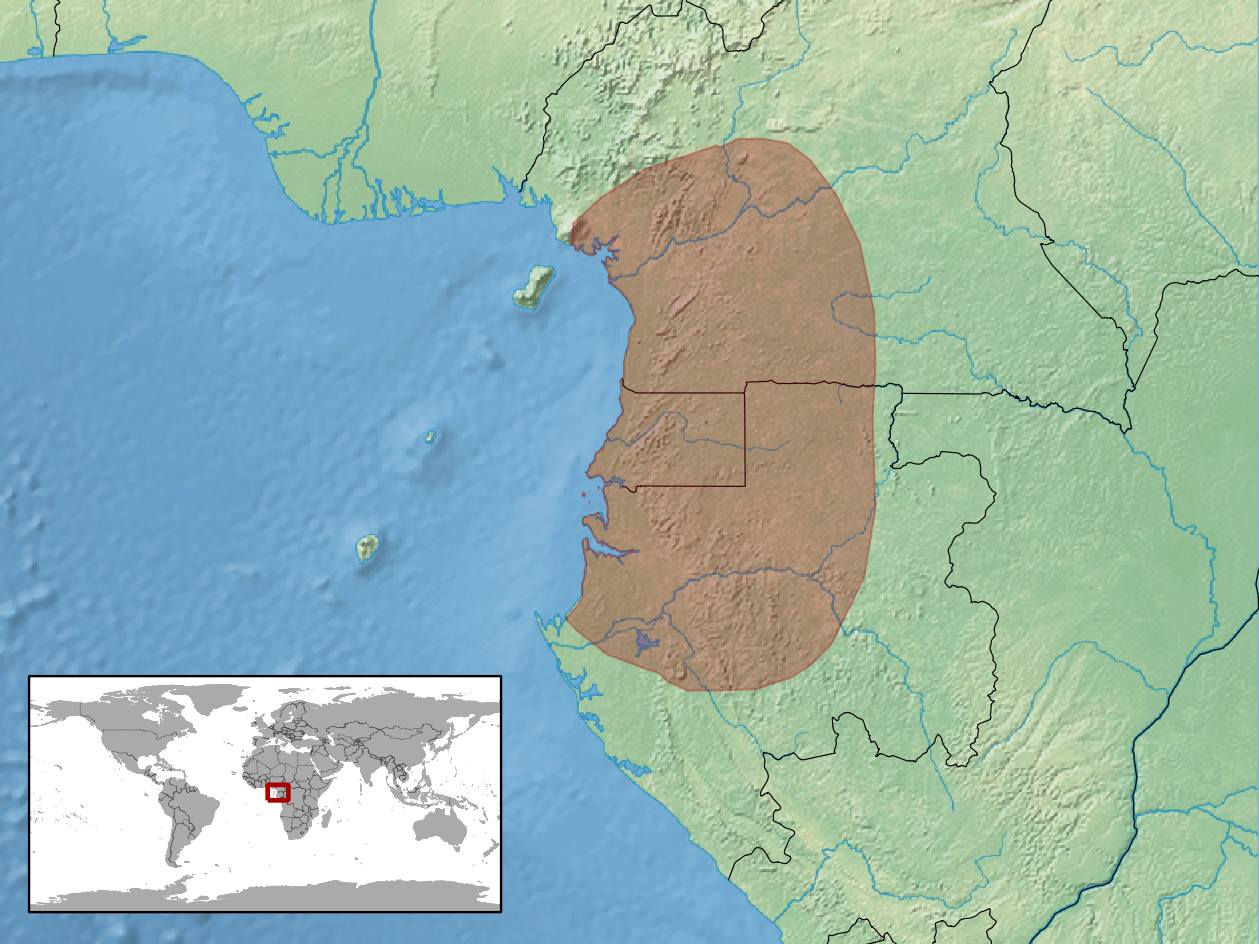 geographic distribution of Monopeltis jugularis (Native: Cameroon; Equatorial Guinea; Gabon)